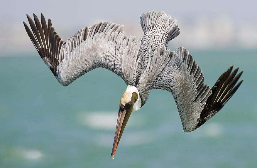 Pelecanus occidentalis